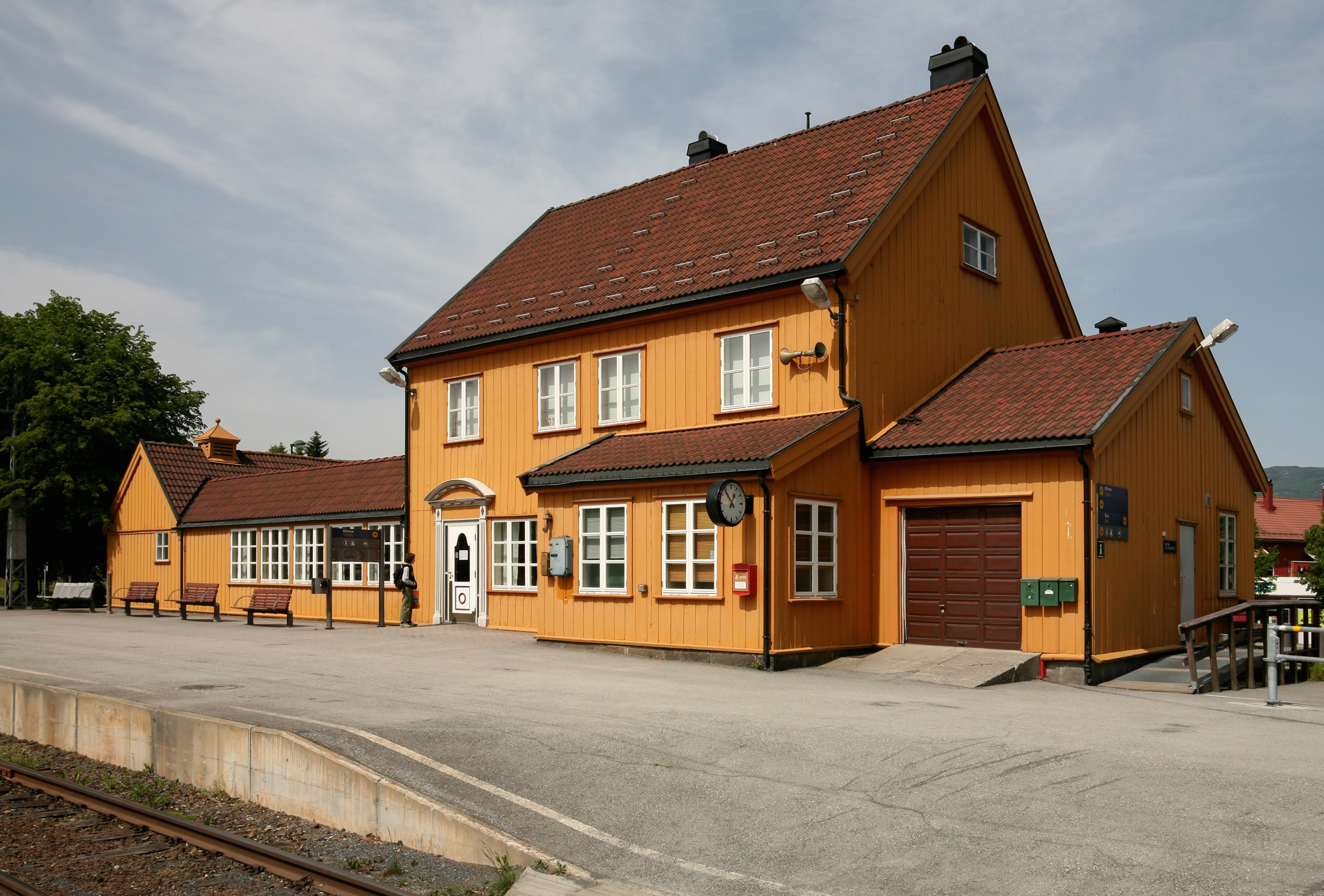 Picture of Bø Railway Station (Telemark - Norway)